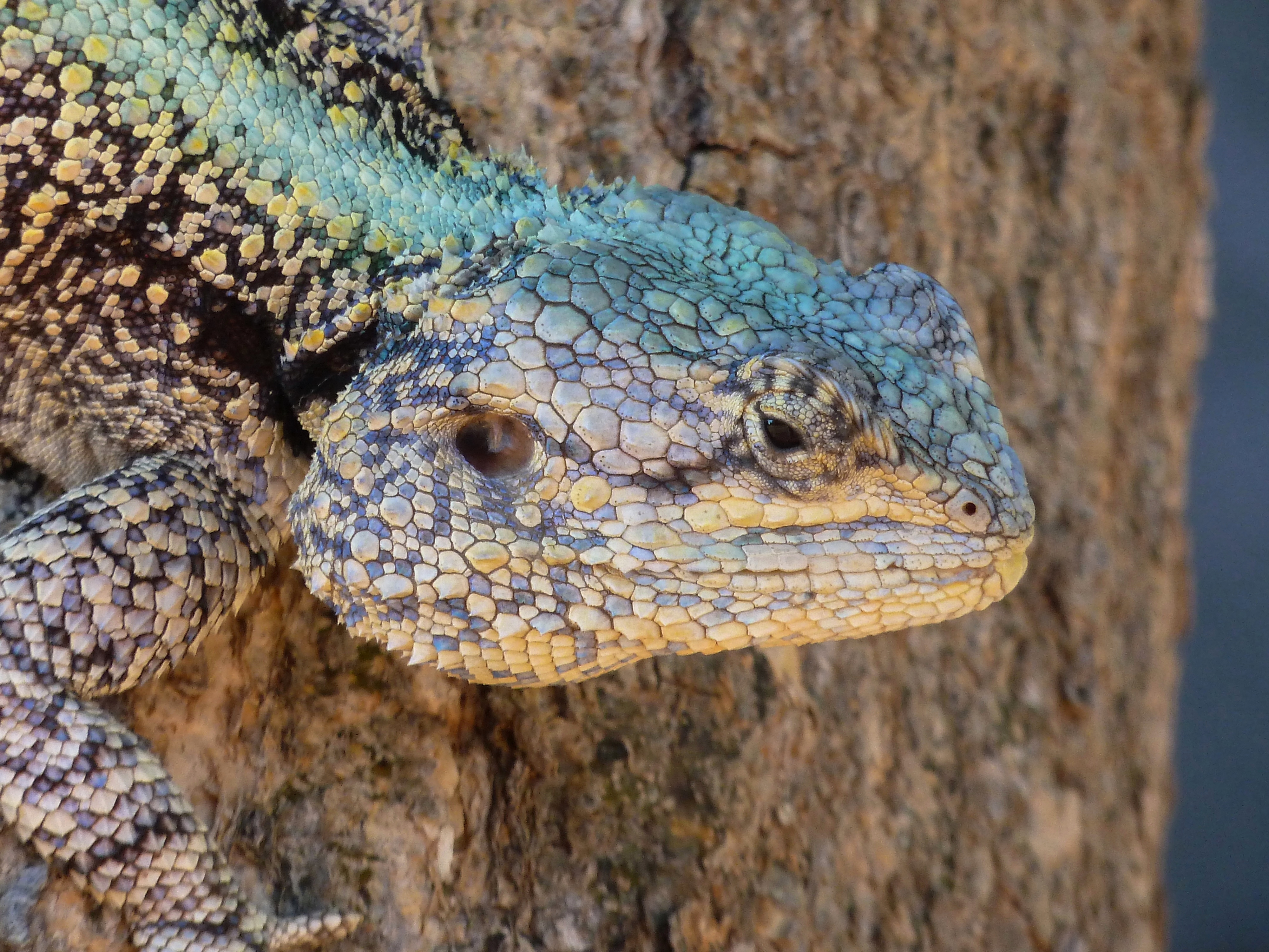 A young male Southern tree agama at Steenbokpan, Limpopo, South Africa